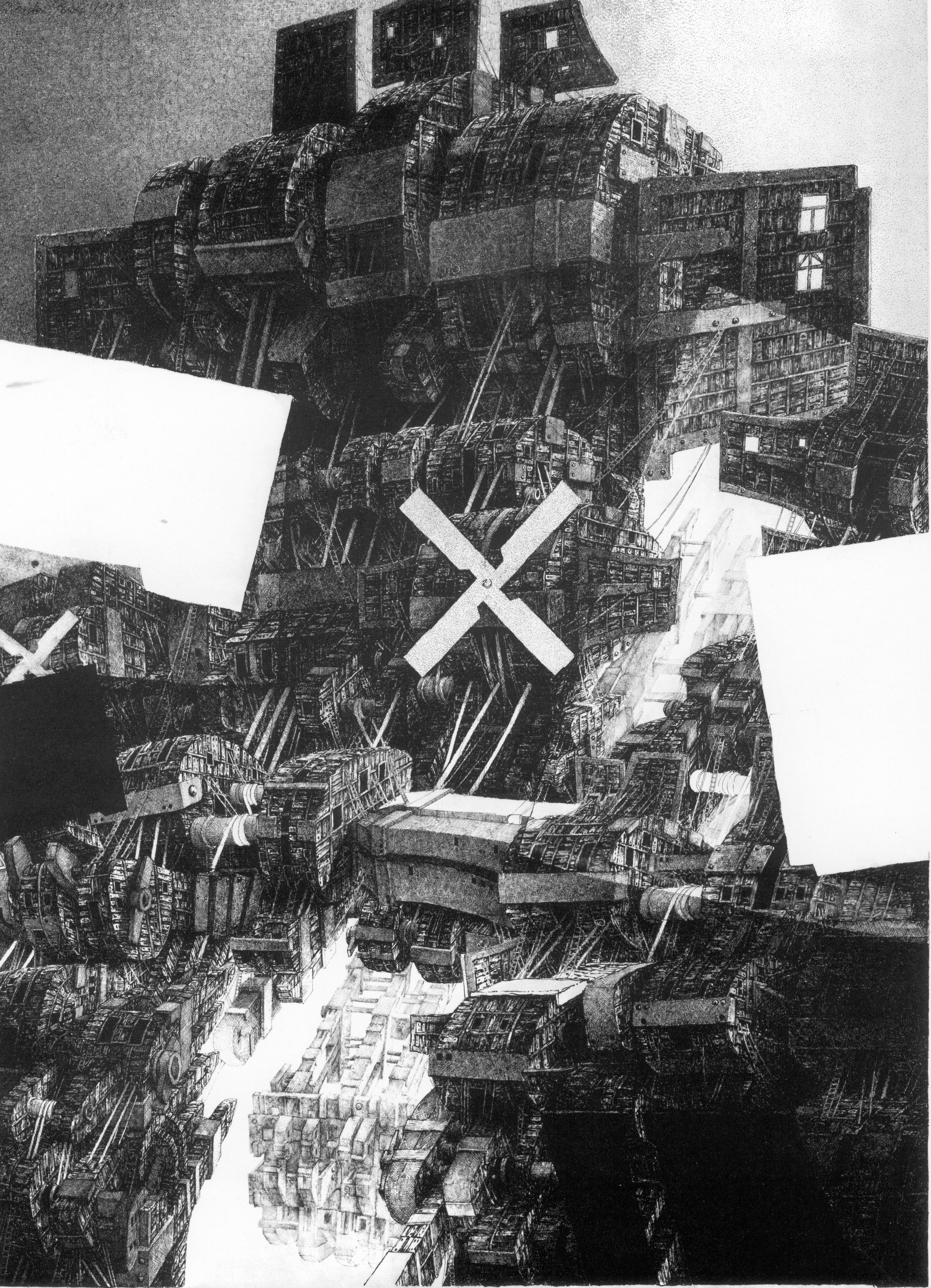 Paweł Warchoł - Picture 300a12 from the series “Holzmachines” (Holzman is Warchoł’s wife’s maiden name)